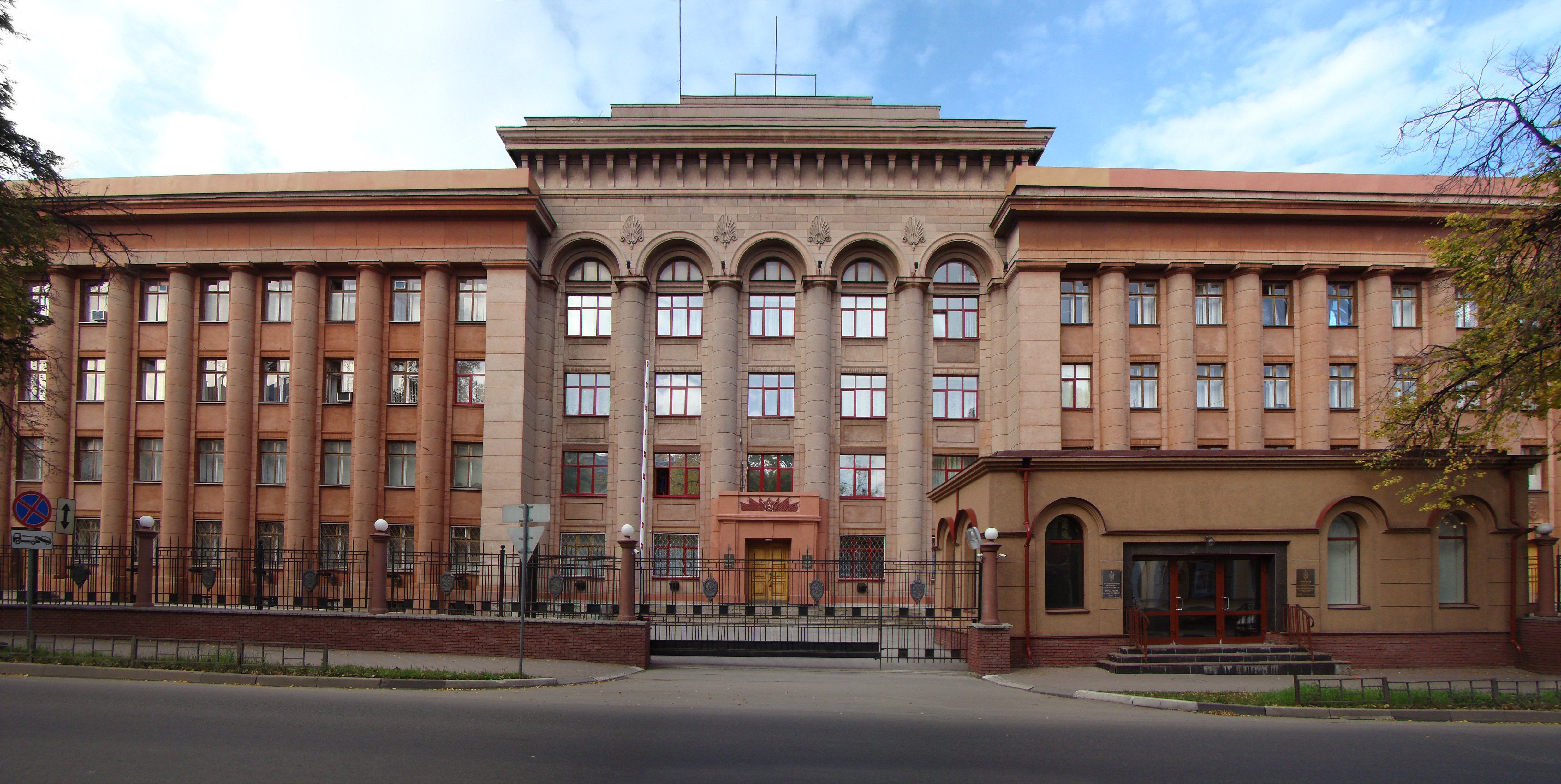 Nizhny Novgorod. Federal Security Service (FSB) building